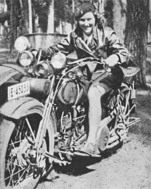 Hertha Guthmar (1908-?), actress of German cinema 1929-1936